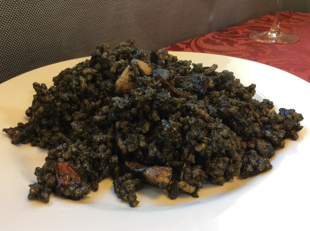 Hoy se come #arroz con chocos #rice #seafood #mariscos #january #galicia #RiasBaixas #winter #cooking #foodie #foodpic #food #foodblogger #foodgasm #foodporn #pornfood #foodstagram #foodphotography #foodlover #foodforthought #fish #foods #foodpics #foodie